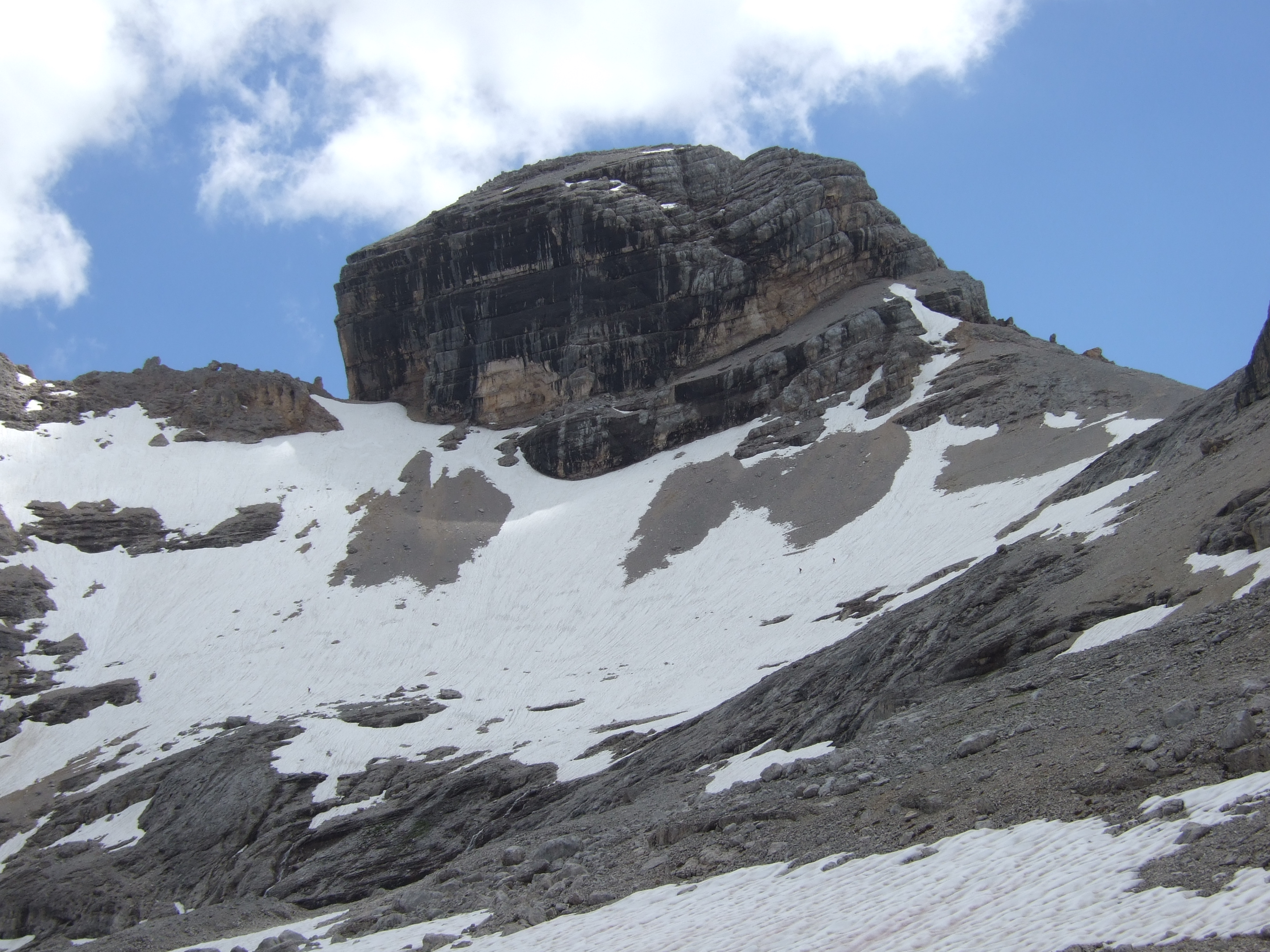 Conturines from northeast